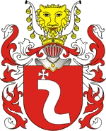 Herb Szreniawa Clan File:POL COA Szreniawa.svg is a vector version of this file. It should be used in place of this raster image when not inferior. File:Herb Szreniawa.PNG File:POL COA Szreniawa.svg For more information, see Help:SVG. In other languages